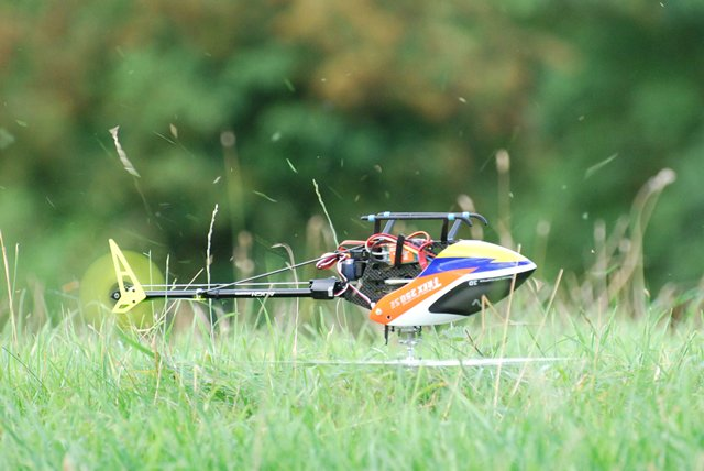 Align Trex 250 RC helicopter flying inverted cutting the grass, collective pitch control allows negative blade pitch for inverted flight, yaw and pitch controls must be reversed by pilot.